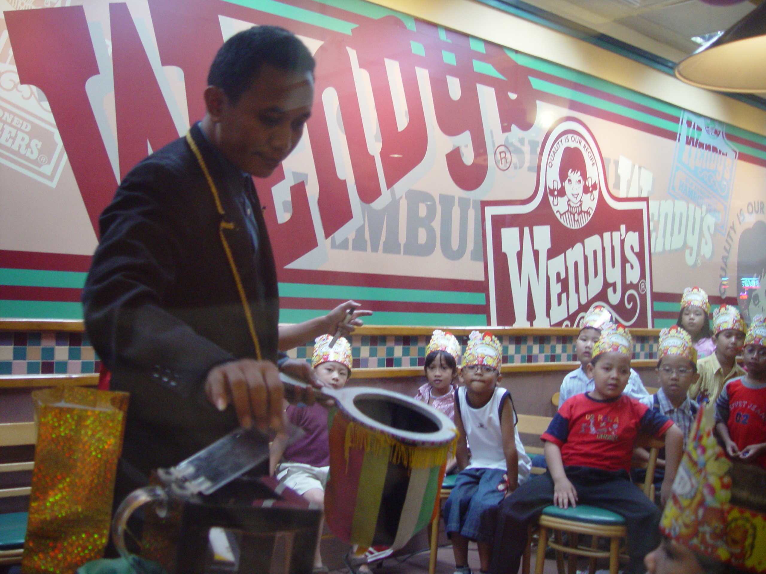 Mall cultural in Jakarta, Indonesia.